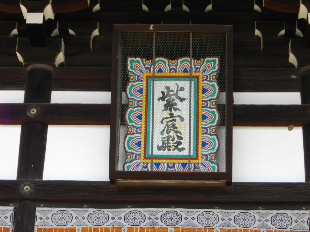 Shishin-Den Plaque